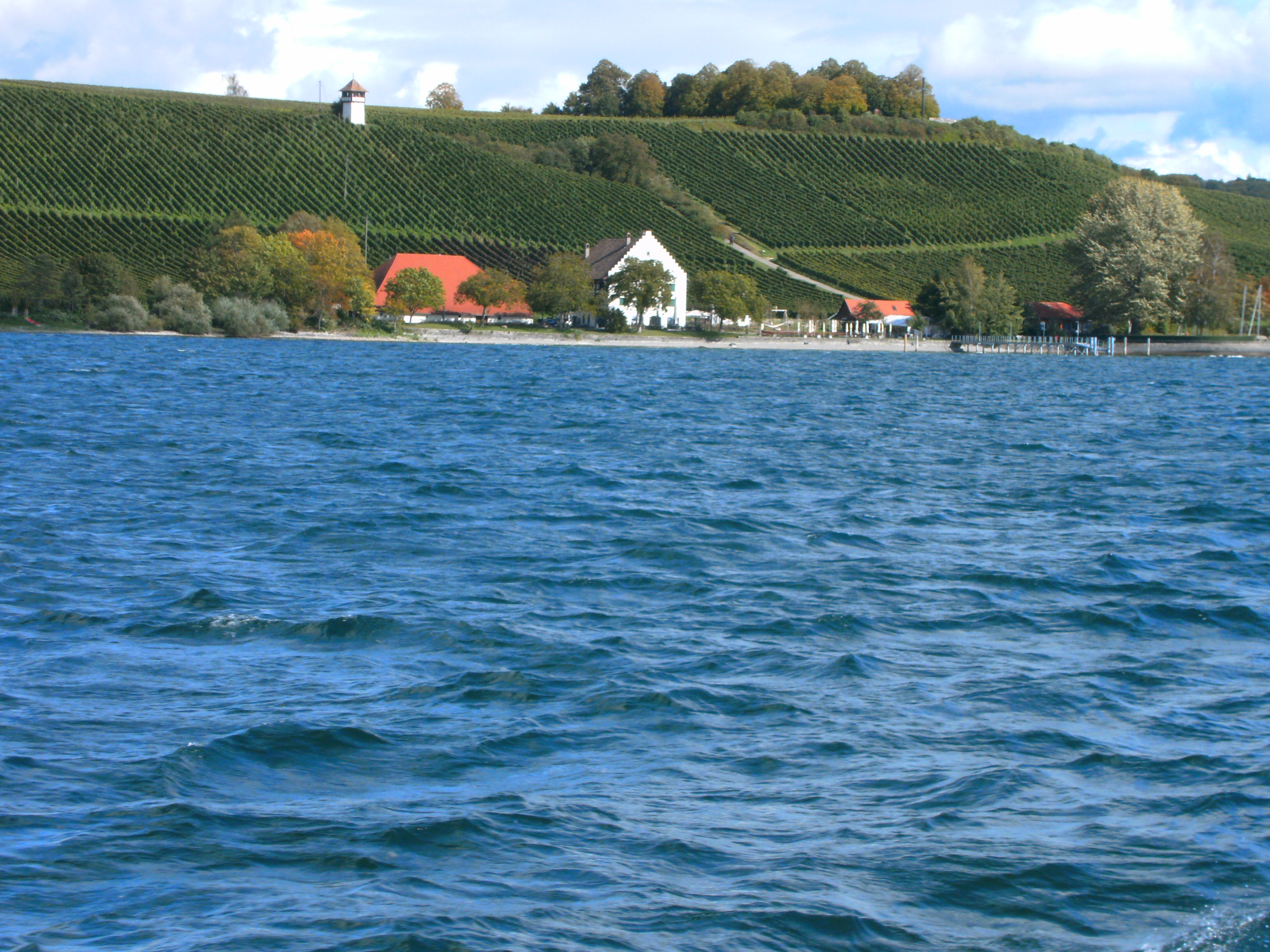 View from Bodensee (Lake Constance) between Meersburg and Hagnau, Germany, on vineyard Haltnau.